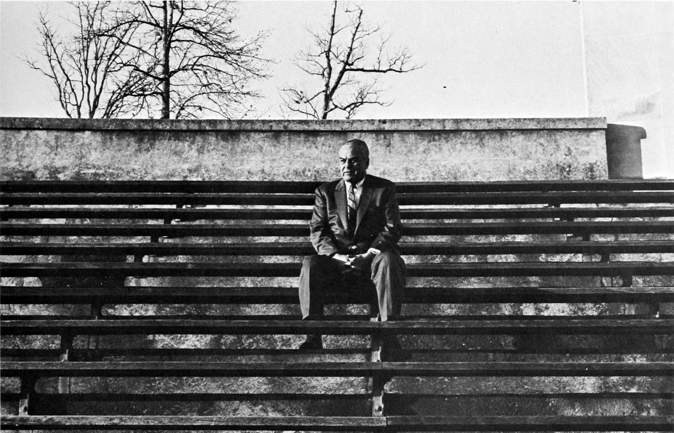 Scanned from the 1968 edition of the Chanticleer, the yearbook of Duke University